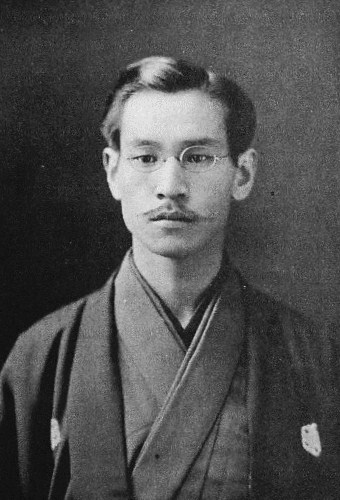 Takatsugu Todo